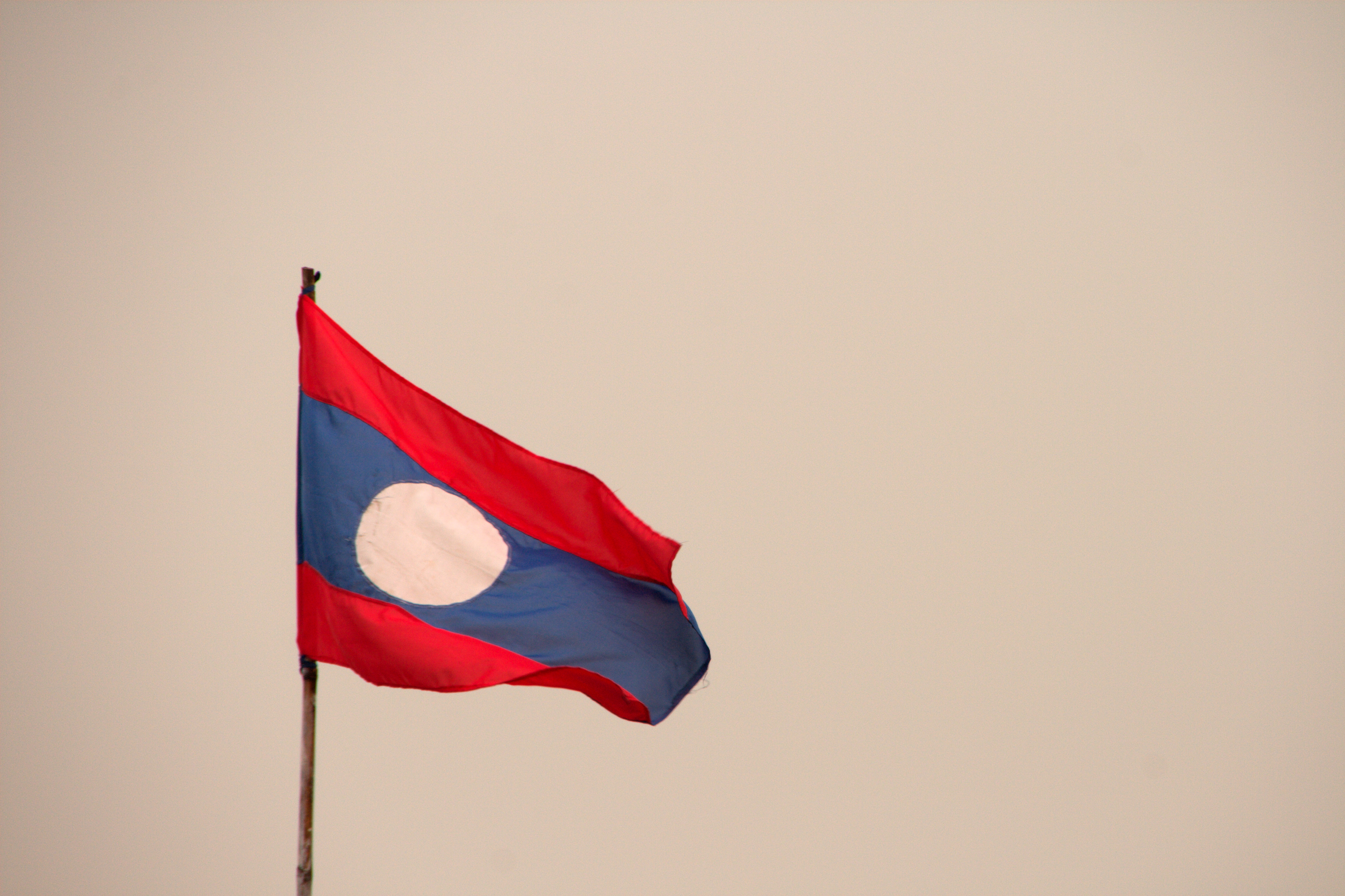 The flag of Laos waiving at the border station between Thailand and Laos at the border of Huia Xai. The Mekong is the natural border between the two countries and it's an easy crossing. Check out my travelblog at